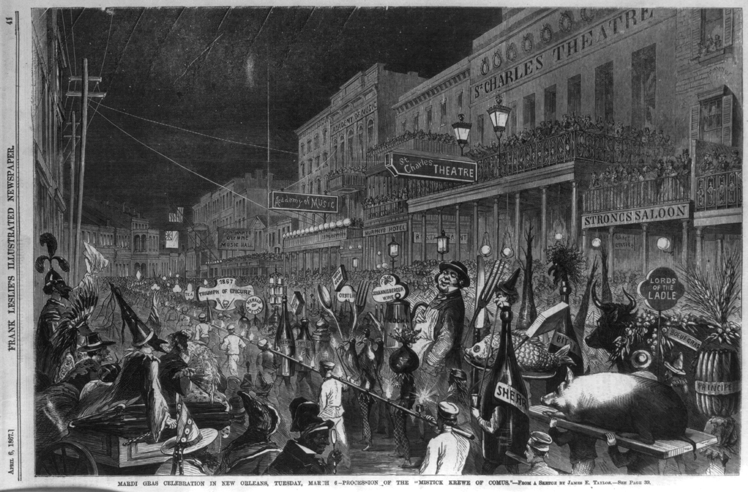 Mardi Gras celebration in New Orleans, Tuesday, March 6, 1867. - Procession of the "Mistick Krewe of Comus". Epicurean floats and figures on St. Charles Avenue. Buildings visible in the background include the St. Charles Theatre, Bidwell's Academy of Music, Strong's Saloon, Murphy's Hotel & Restaurant, and the Olympic Music Hall.